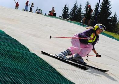 Neveplast artificial ski slopes